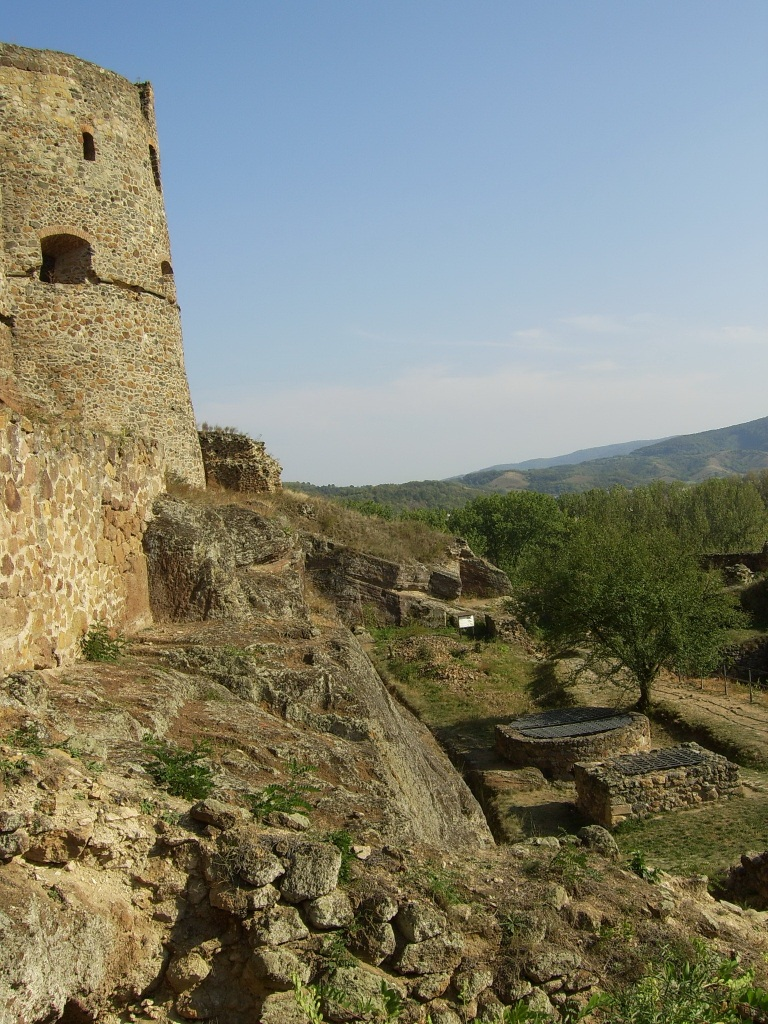 Middle part of the castle: the Clock Tower and the well.